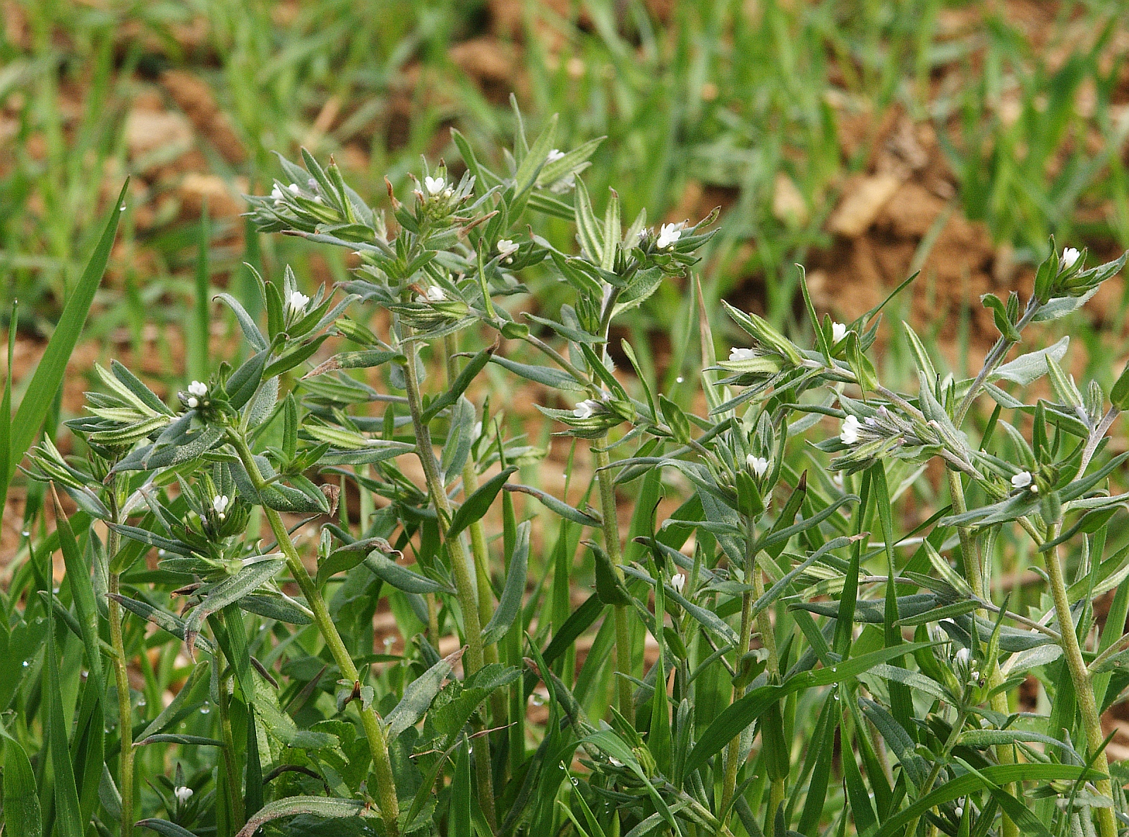 Buglossodies arvensis, Tauberland, Germany